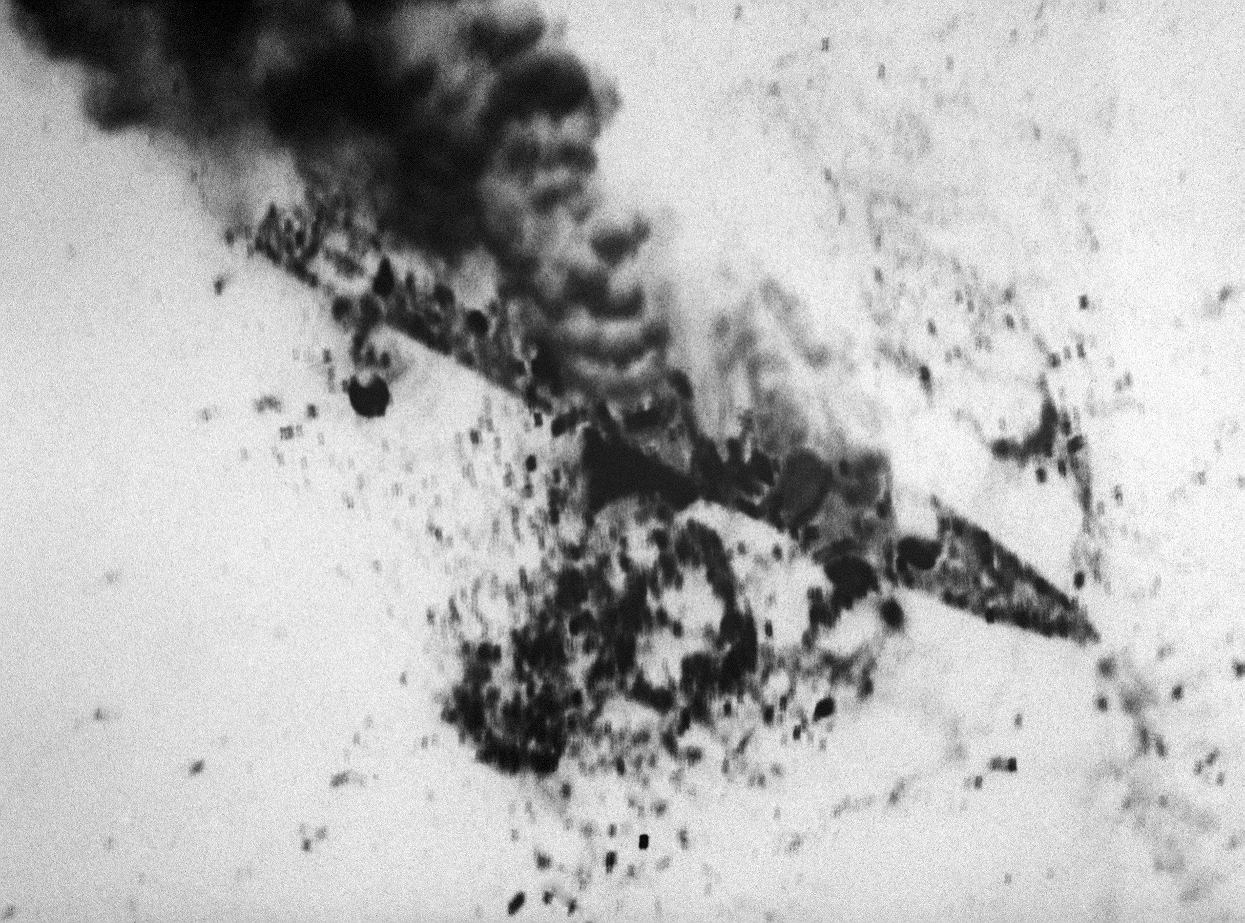 An aerial view of the Iranian frigate IS Sahand (74) burning on 18 April 1988 after being attacked by aircraft of U.S. Navy Carrier Air Wing 11 in retaliation for the mining of the guided missile frigate USS Samuel B. Roberts (FFG 58)